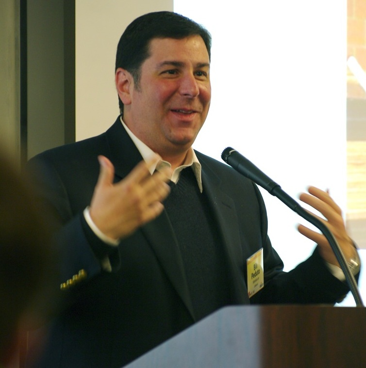 City Councilman Bill Peduto giving opening remarks at the 2009 Pittsburgh PodCamp at the Art Institute of Pittsburgh on October 10, 2009.